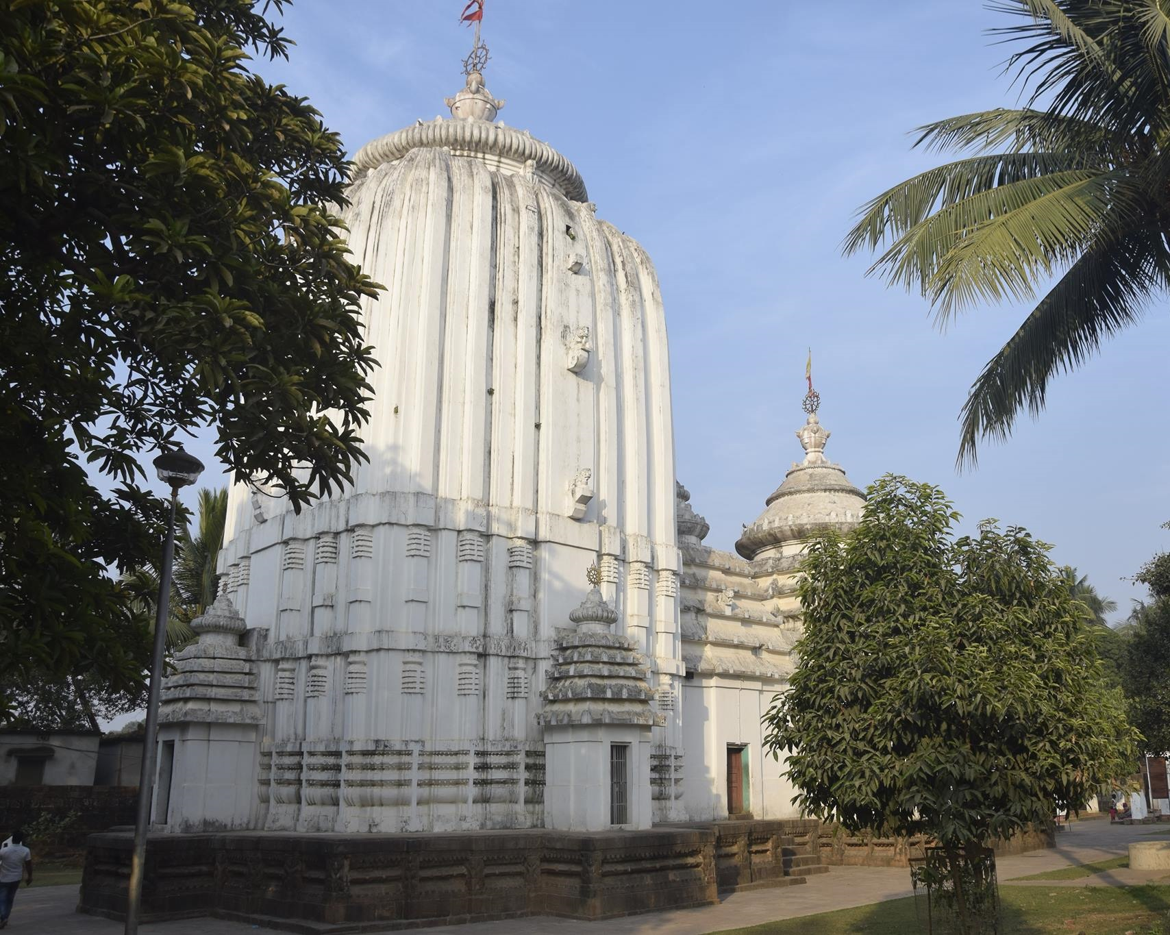 Jagannath Temple at Jajpur in Odisha of Anangabhima Deva III